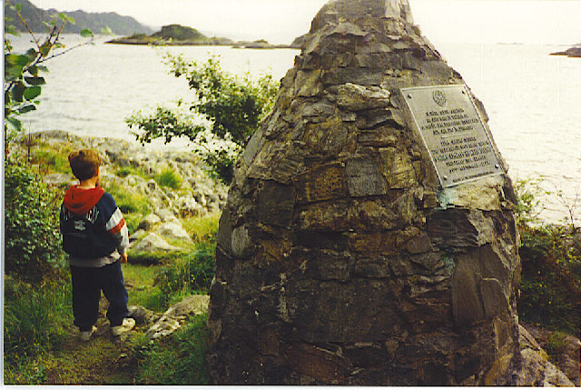 The Prince's Cairn, Loch Nan Uamh. The cairn marking where Bonnie Prince Charlie finally left Scotland for France.